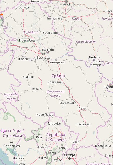 OpenStreetMap of State Road 16 in Serbia.